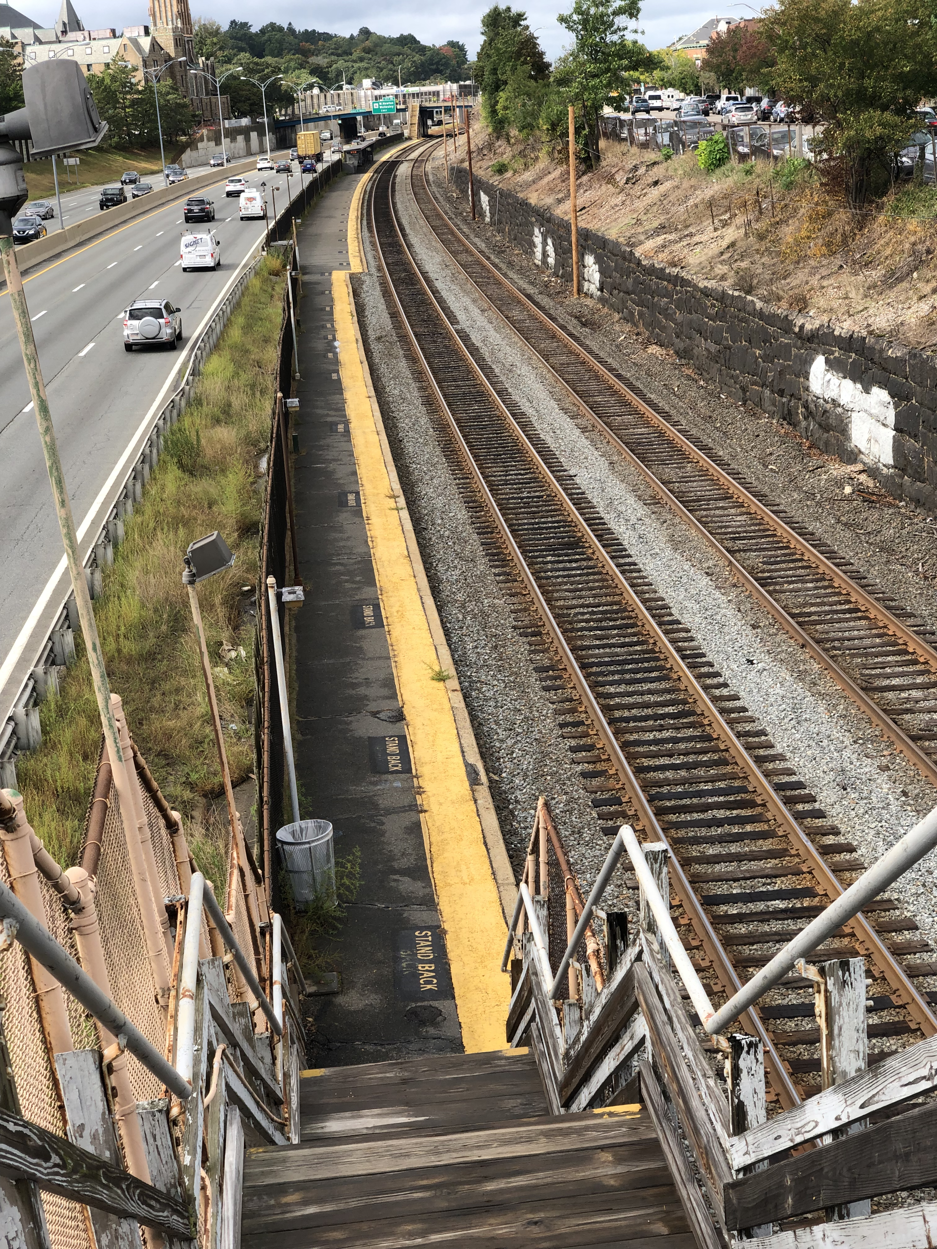 Newtonville MBTA commuter rail station from Harvard Street in September 2018